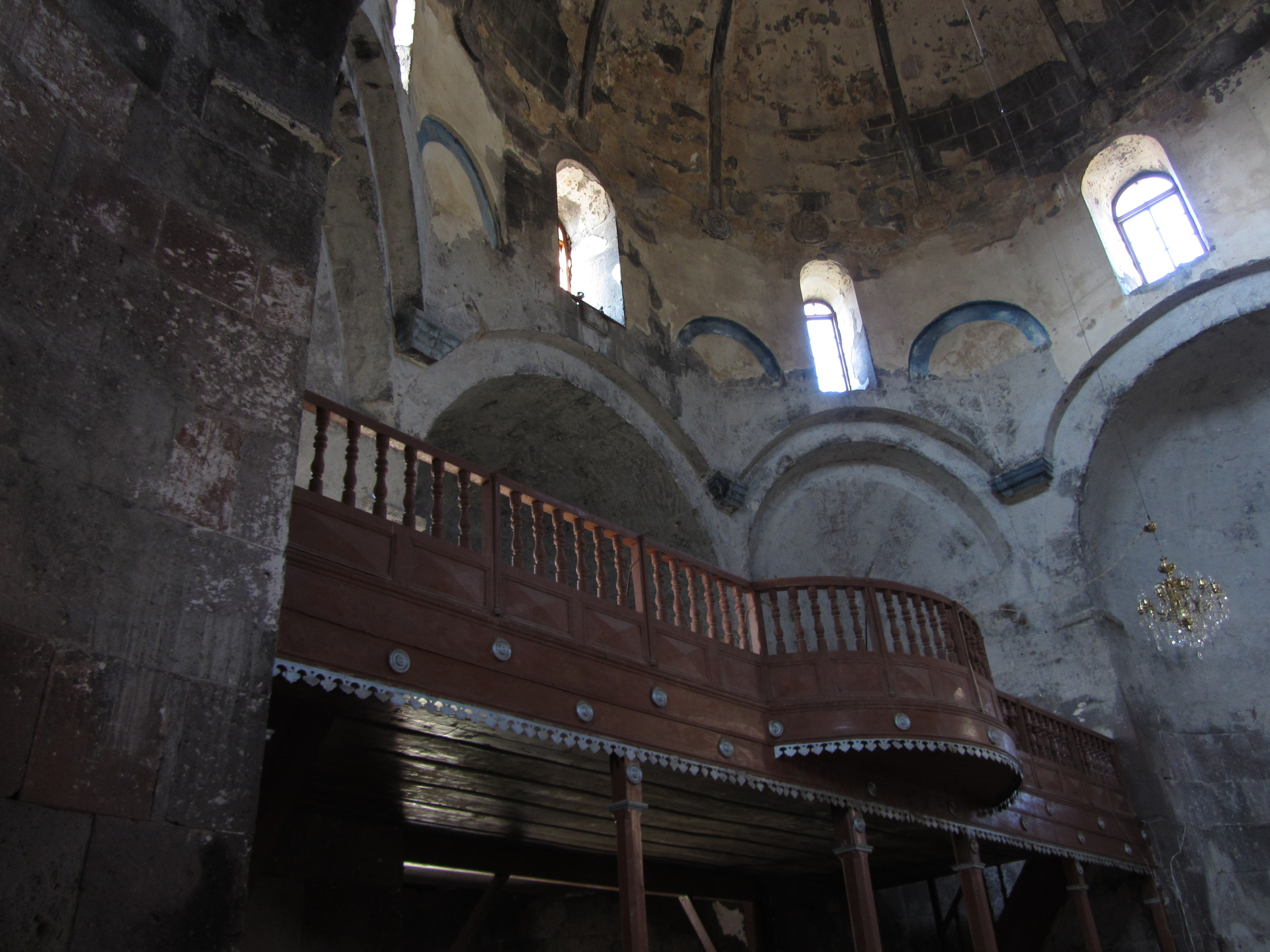 Mastara, Surb Hovanes Church (6c.)